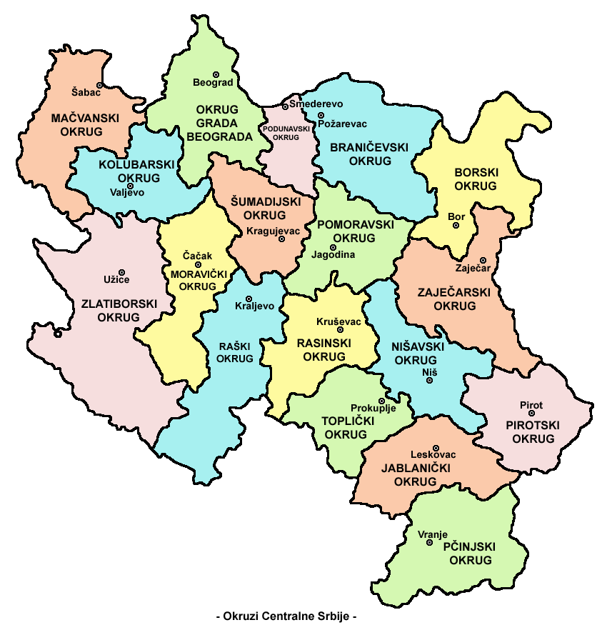 Map of districts in Central Serbia - Serbian language Latin script version.